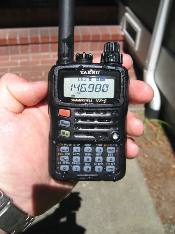 Yaesu VX-6R handheld amateur radio transceiver. This photo was taken by electromage, KE7NOR. It should be included in the article Yaesu_VX-6R